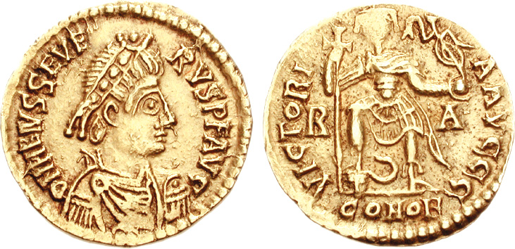 Visigoths, Gaul, In the name of Libius Severus (Severus III). Uncertain king. AD 417-507. AV Solidus (4.38 g, 6h). Struck circa AD 461-466. D N HBIVS SEVE-RVS P F AVG, pearl-diademed, draped, and cuirassed bust right Emperor standing facing, right foot on human-headed serpent, holding long cross and Victory: R-A//COMOB. RIC X 3755 var. (obv. legend); MEC 1, 175 var. (same). Good VF, struck with slightly rusty dies.